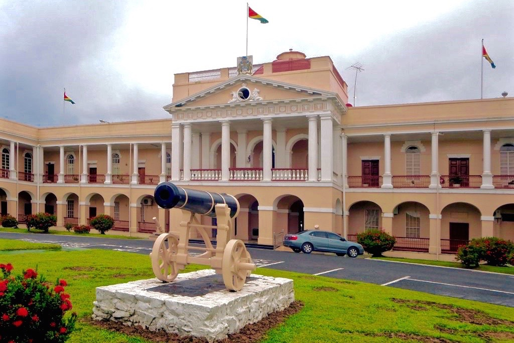 The neo-Classical Parliament Building in Georgetown, Guyana, is a monumental brick building completed in 1834. Two Russian cannon captured during the Crimean War grace the front lawn.